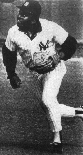 Professional baseball player Walt Williams